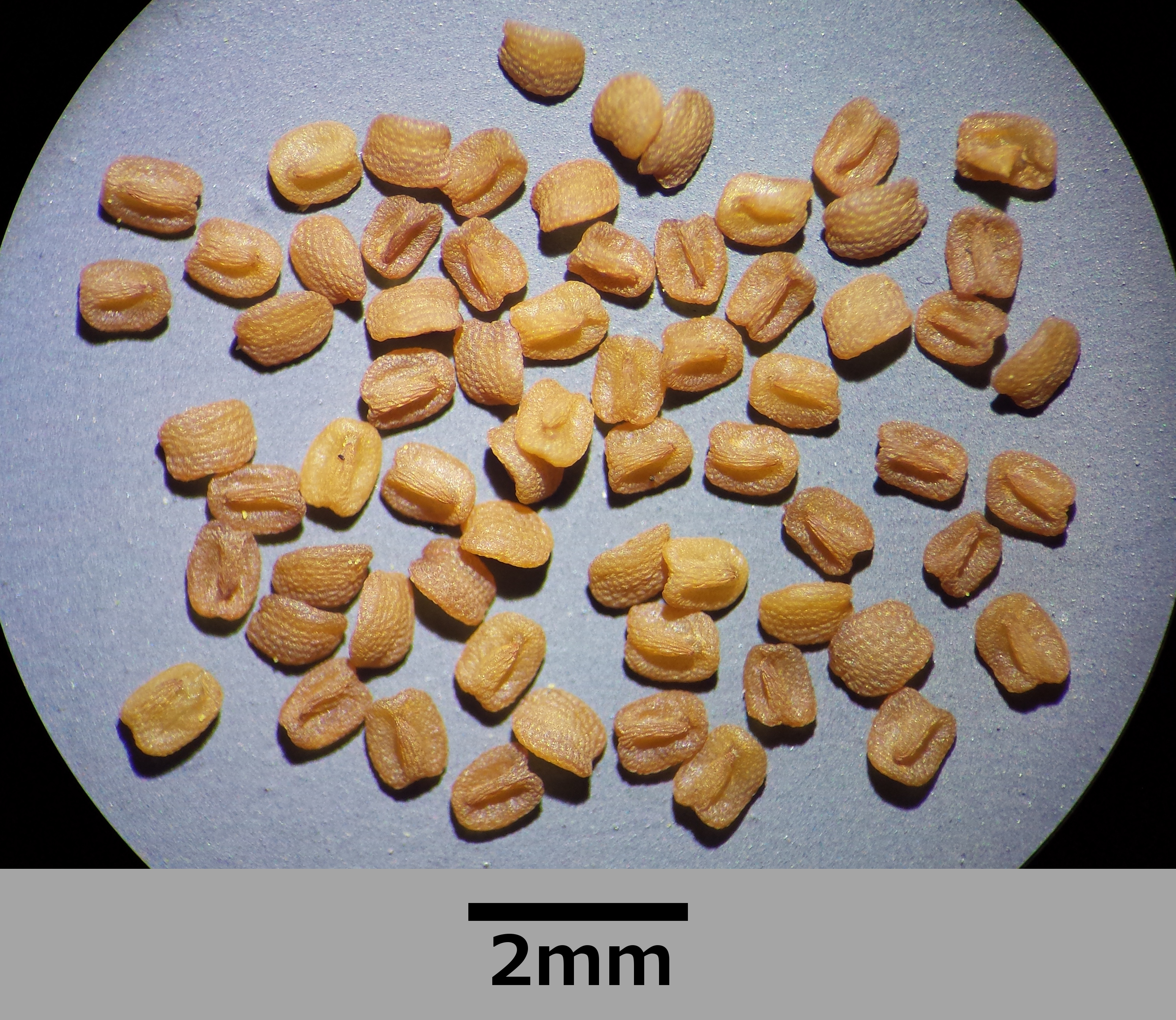 Seeds Taxon: Holosteum umbellatum var. umbellatum (sensu Fischer et al. EfÖLS 2008 ISBN 978-3-85474-187-9) Location: Floridsdorf railway station, Vienna-Floridsdorf - ca. 160 m a.s.l. Habitat: railway slope